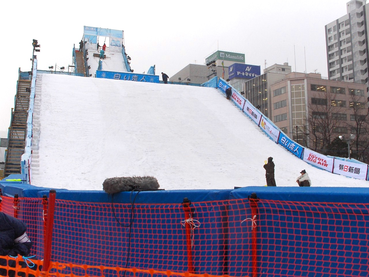 The ski jump at the Odori Park site of the Sapporo Snow Festival in 2007.